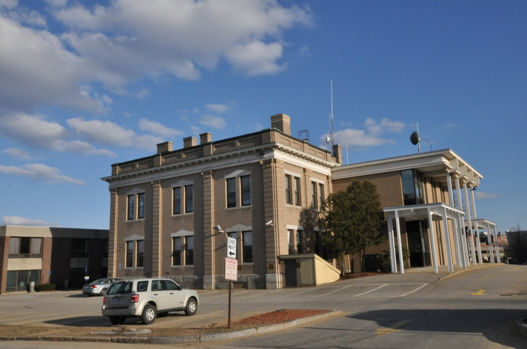 Merrimack County Courthouse, Concord, New Hampshire